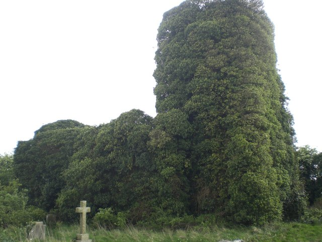 St Andrew's, Bircham Tofts A remarkable sight - a ruined church completely covered in ivy. The structure, though roofless, is intact. The only reference I have found on line is but no doubt there is more to discover about it locally. Grade II listed.